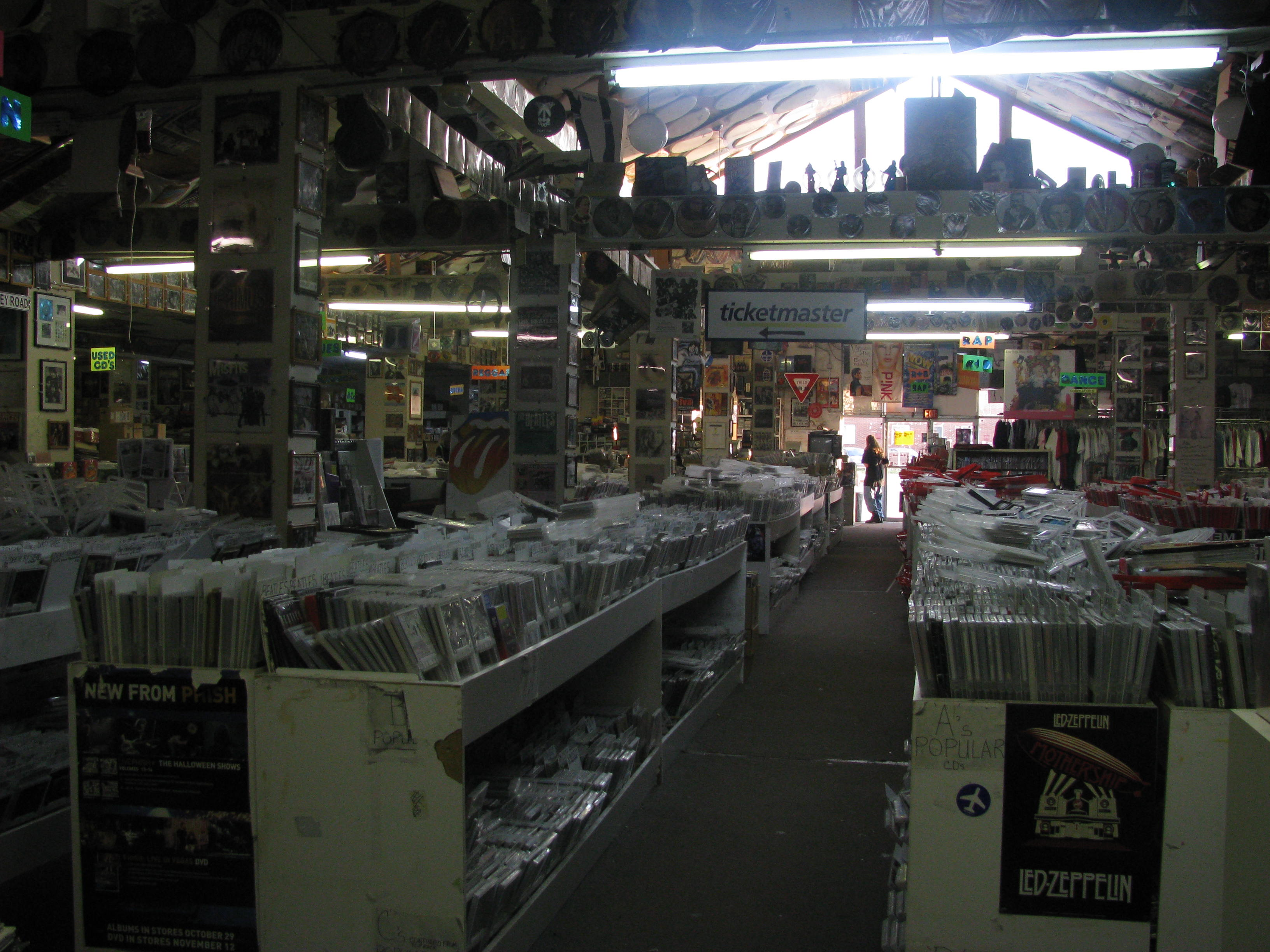 The inside of the House of Guitars in Rochester, NY